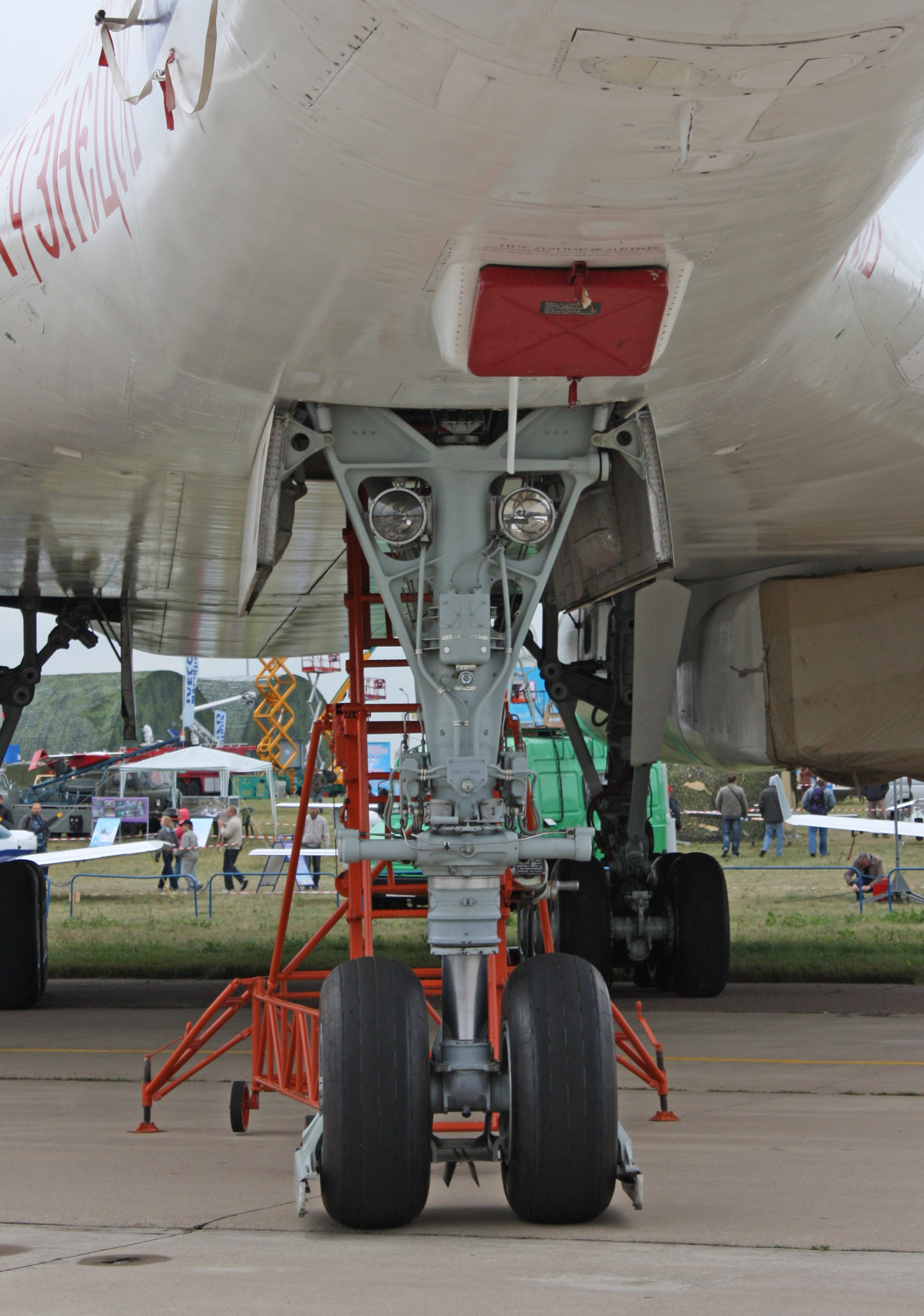 Tupolev Tu-160 (num 10 "Nikolai Kuznetsov"). The forward chassis (The international aerospace salon MAKS-2009)